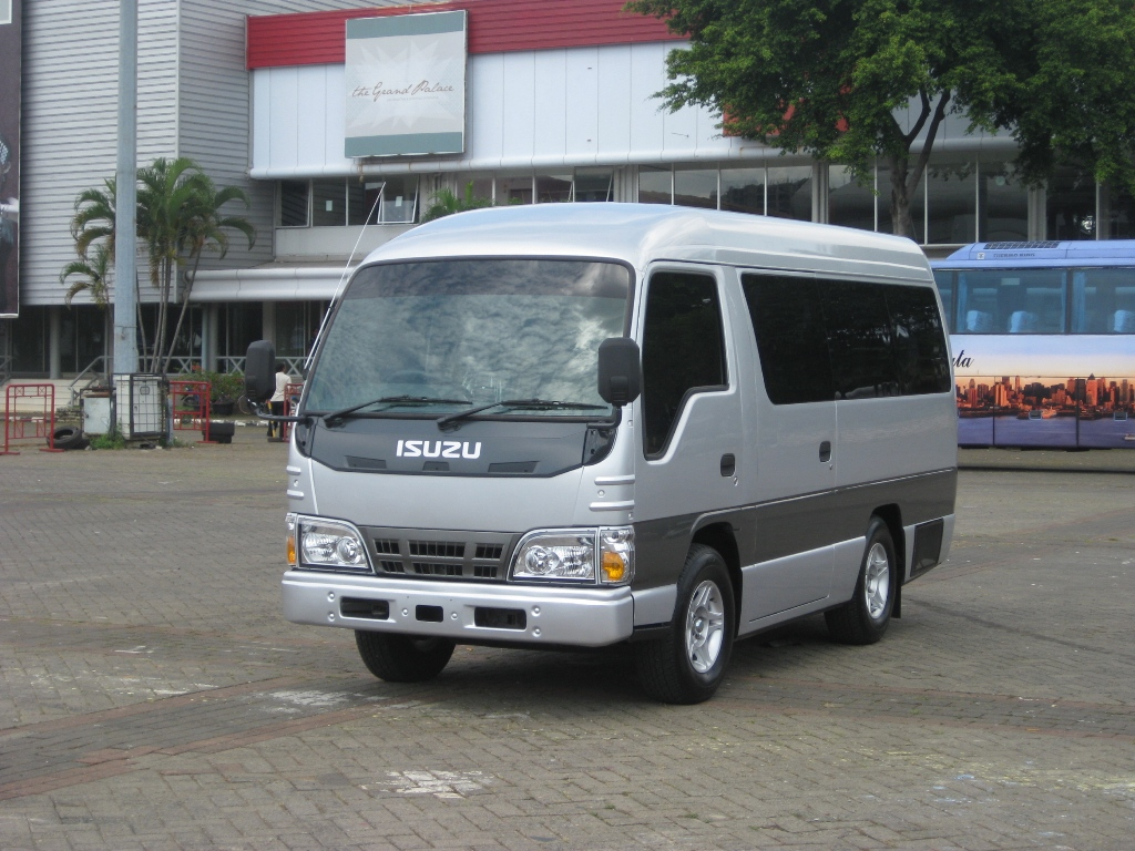 Isuzu Elf NKR55 microbus, photographed in Jakarta, Indonesia.